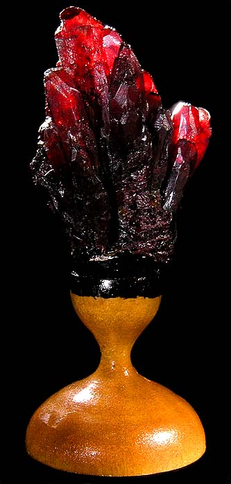 Proustite Locality: Marienberg District, Erzgebirge, Saxony, Germany (Locality at ) WOW! THIS is not only a significant German proustite, but it is one with some color and display qualities to boot! This radiating fanspray cluster is complete all around and has just minor damage that is frankly not unexpected given the age and softness of the mineral; and at the same time trivial in context. It has crystals to a whopping 3 cm in height! Marienberg proustites are among the rarest of the German proustite localities, and this carries a premium to some extent, but this would be a good piece from ANY German locality, in any case. It was in fact IN a museum, as you will note the oldstyle wax-and-wood pedestal characteristic specimens out of a number of East European museums from the 1800's. It was sold to a collector the last time around in 1979 by Larry Conklin and this is the first time since that it has been offered for public sale. 4.2 x 3.0 x 2.6 cm